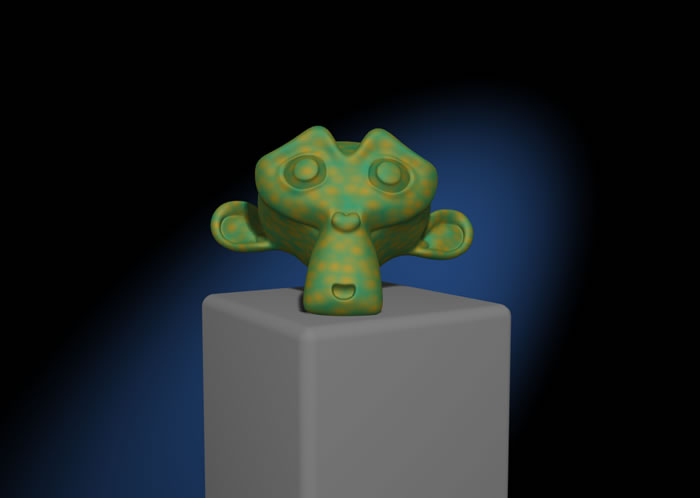 none